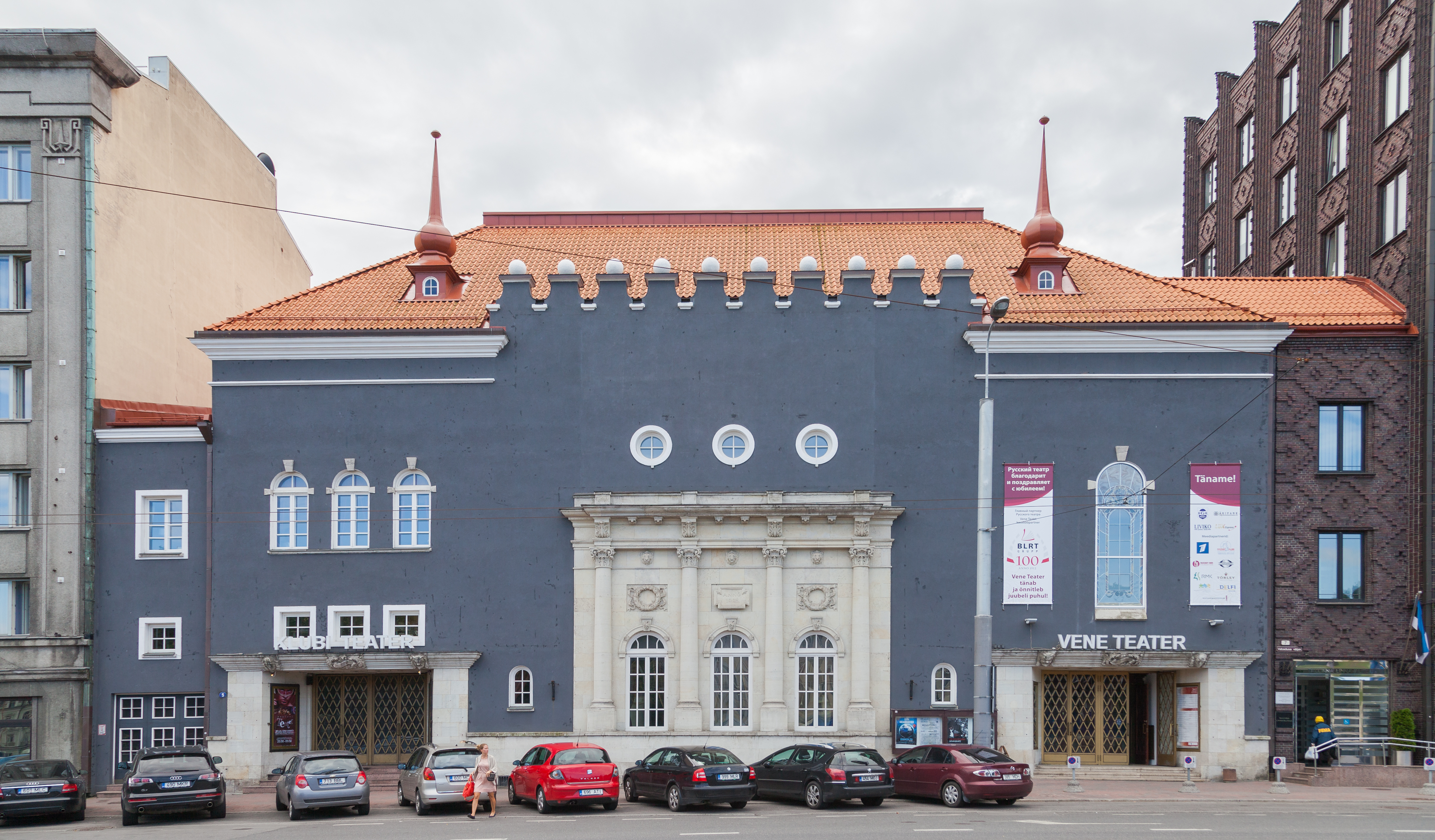 Russian State Theater, Tallinn, Estonia